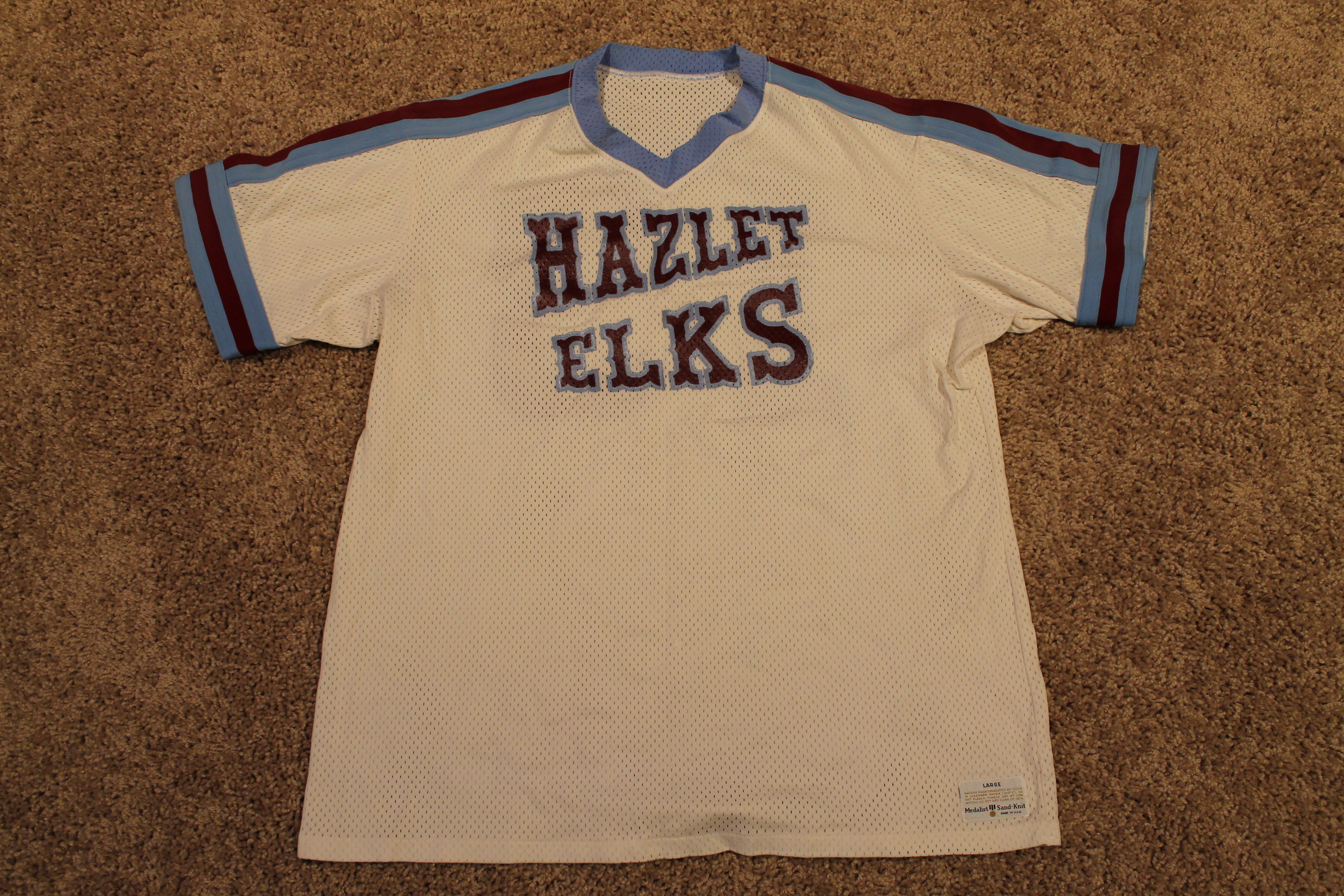 Hazlet Elks Jersey worn in the South River Baseball League